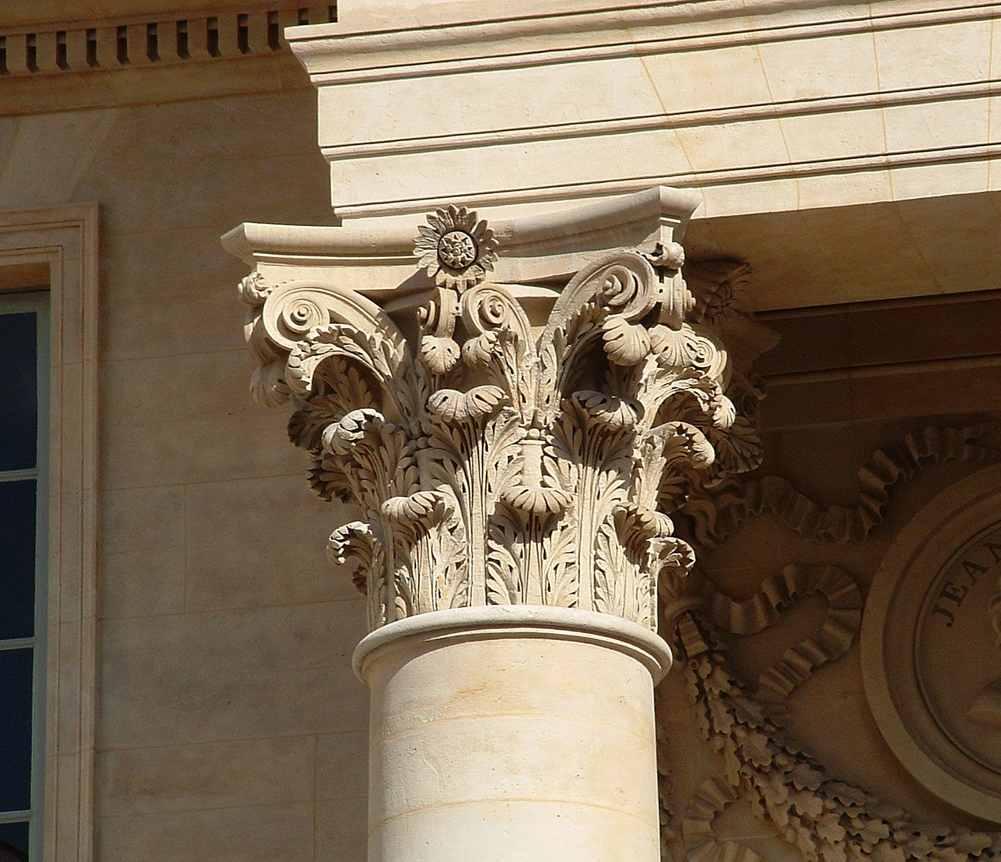 Modern corinthian capital in the Paris Descartes University main cour